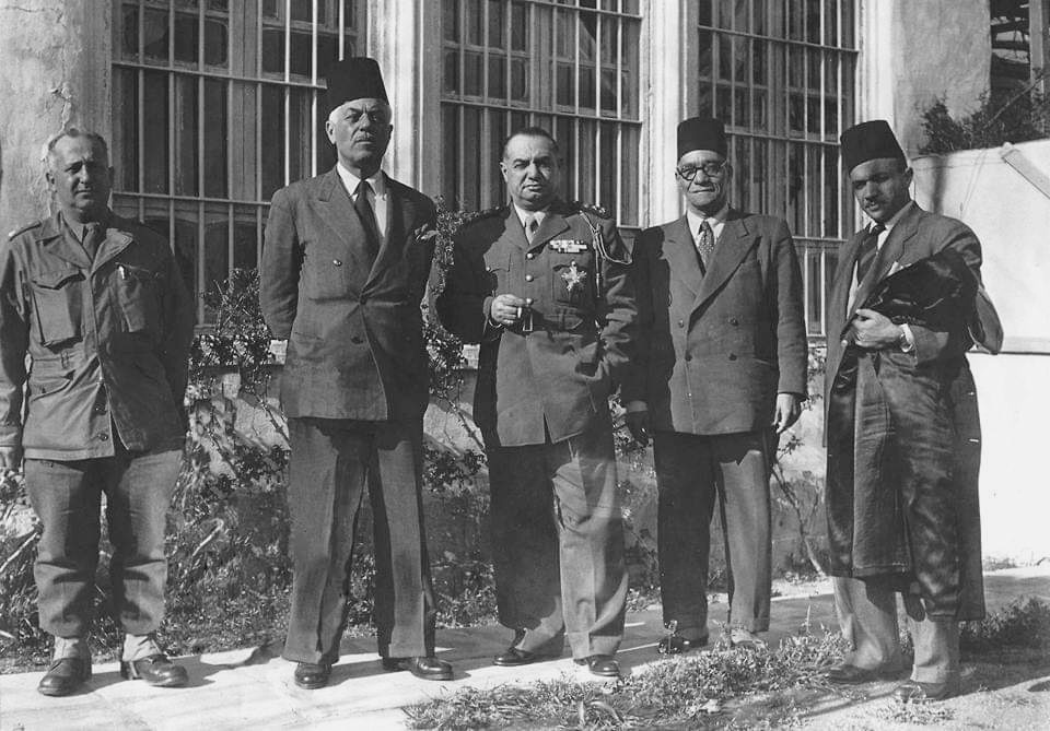 Mohammed Asad Talas (first from right), Mahmoud Azmi, Husni Al-Zaim (in the middle), Adel Arslan, Fawzi Salou